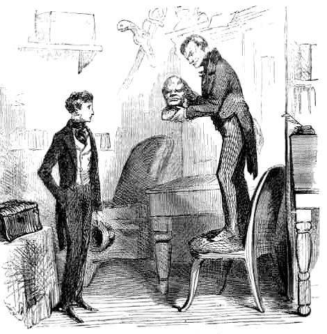 Wemmick shows a murderer's skull to Pip in Jagger's office, by John McLenan